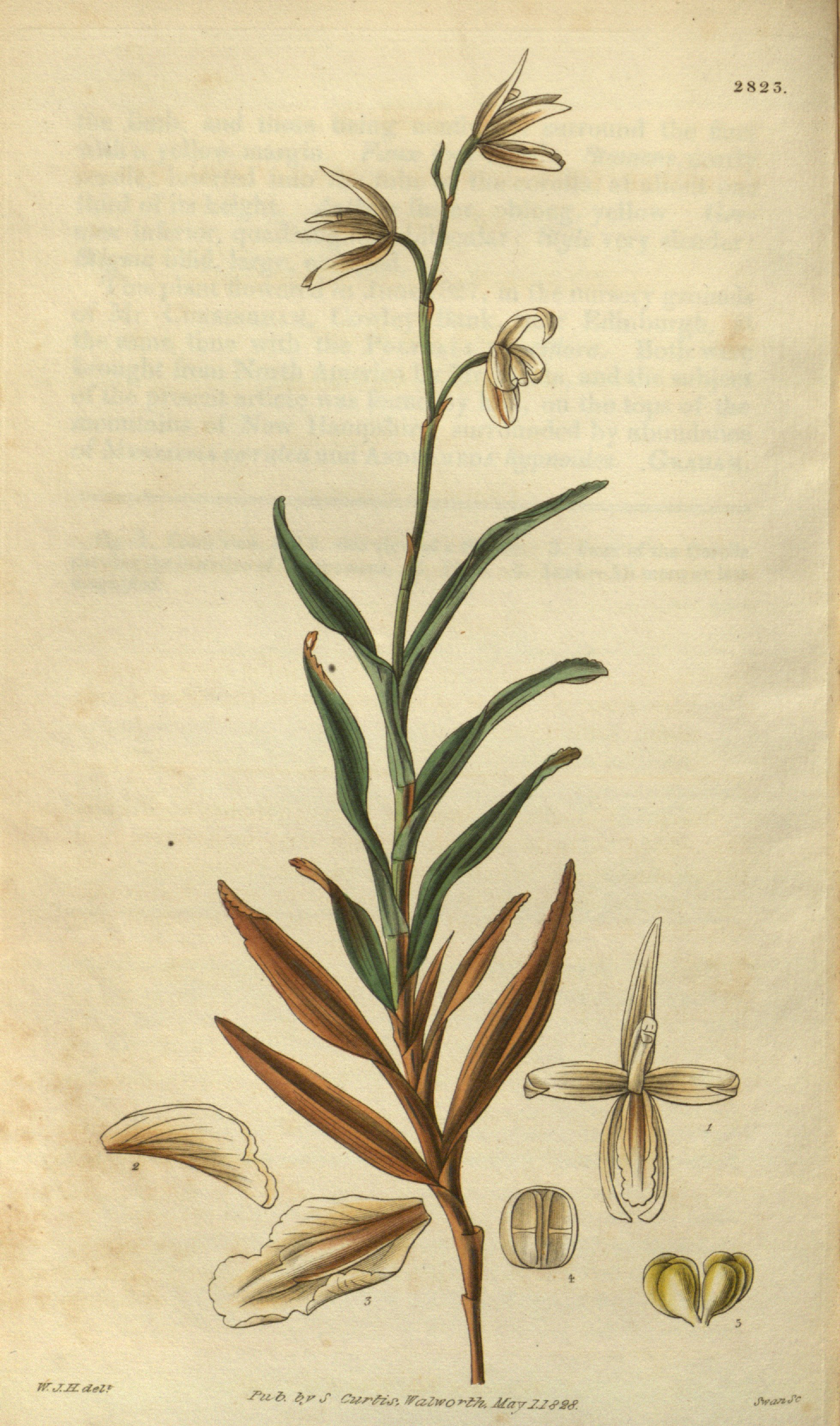 Illustration of Dilomilis montana (as syn. Octomeria serratifolia)